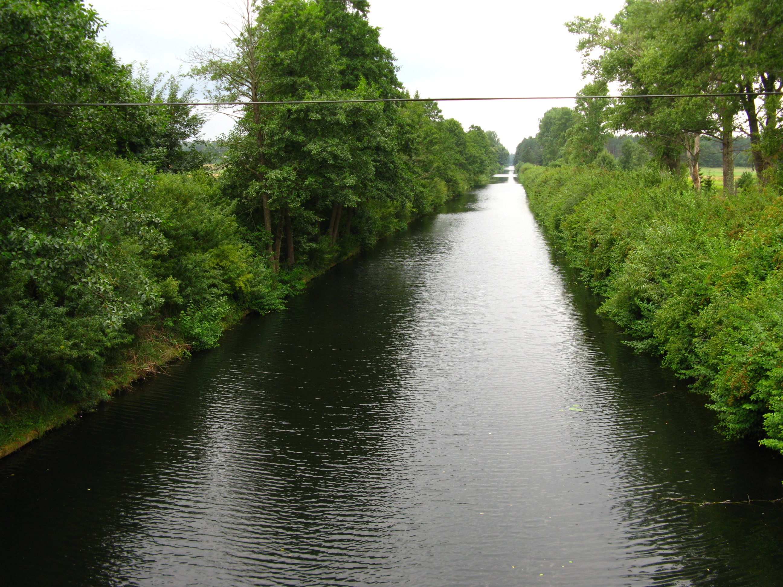 Augustów Canal between Średnie lake and Gorczycie lake